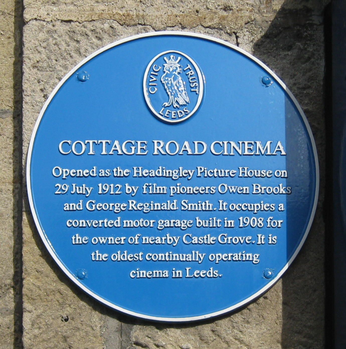 Leeds Civic Society blue plaque on Cottage Road Cinema, Leeds. Unveiled 29 July 2012 by playwright and actress Kay Mellor